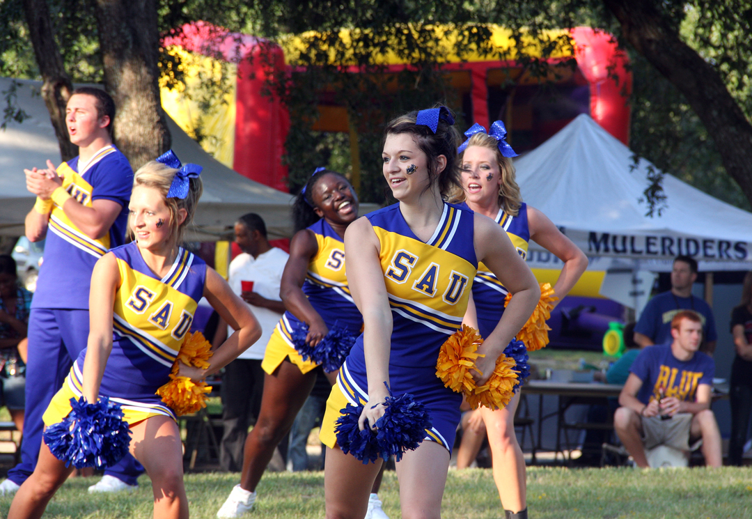 Southern Arkansas Mulegating: the cheerleaders rally school spirit while people enjoy the food and games provided in the background during SAU's Family Day.